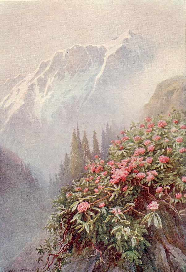 Image taken from the painting by Major Edward Molyneux (died 1913) and published in the book Kashmir by Francis Younghusband in 1917. .